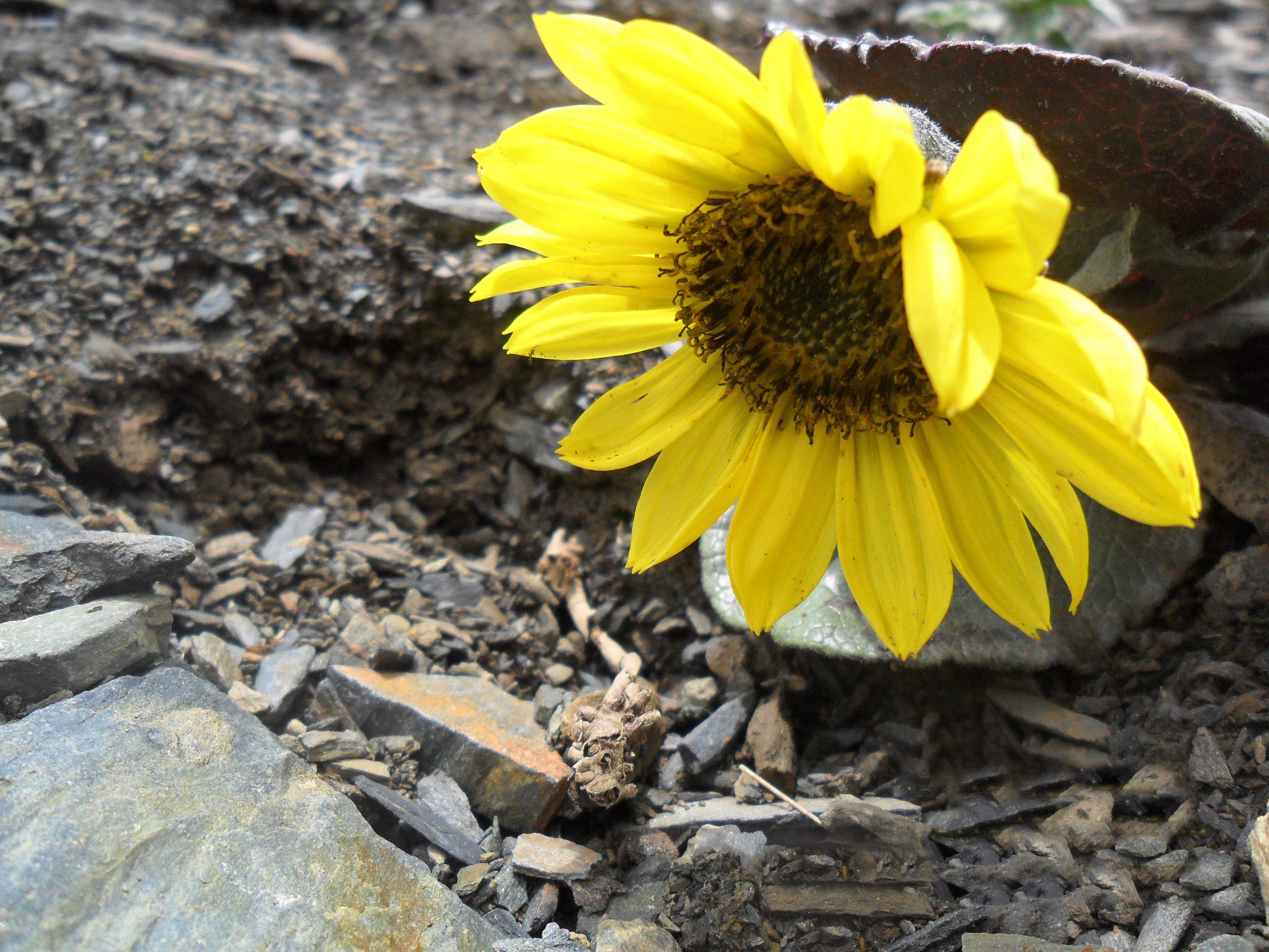 Interesting flower of 5000m.